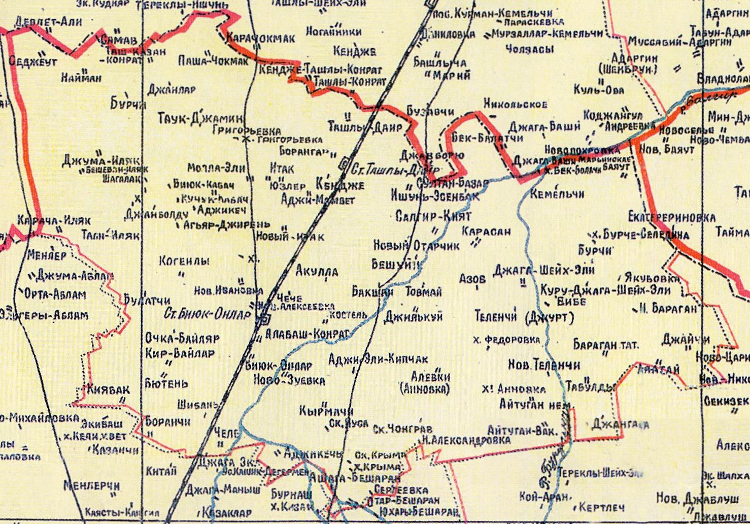 Biyuk-Onlarskiy district, Crimea. 1922